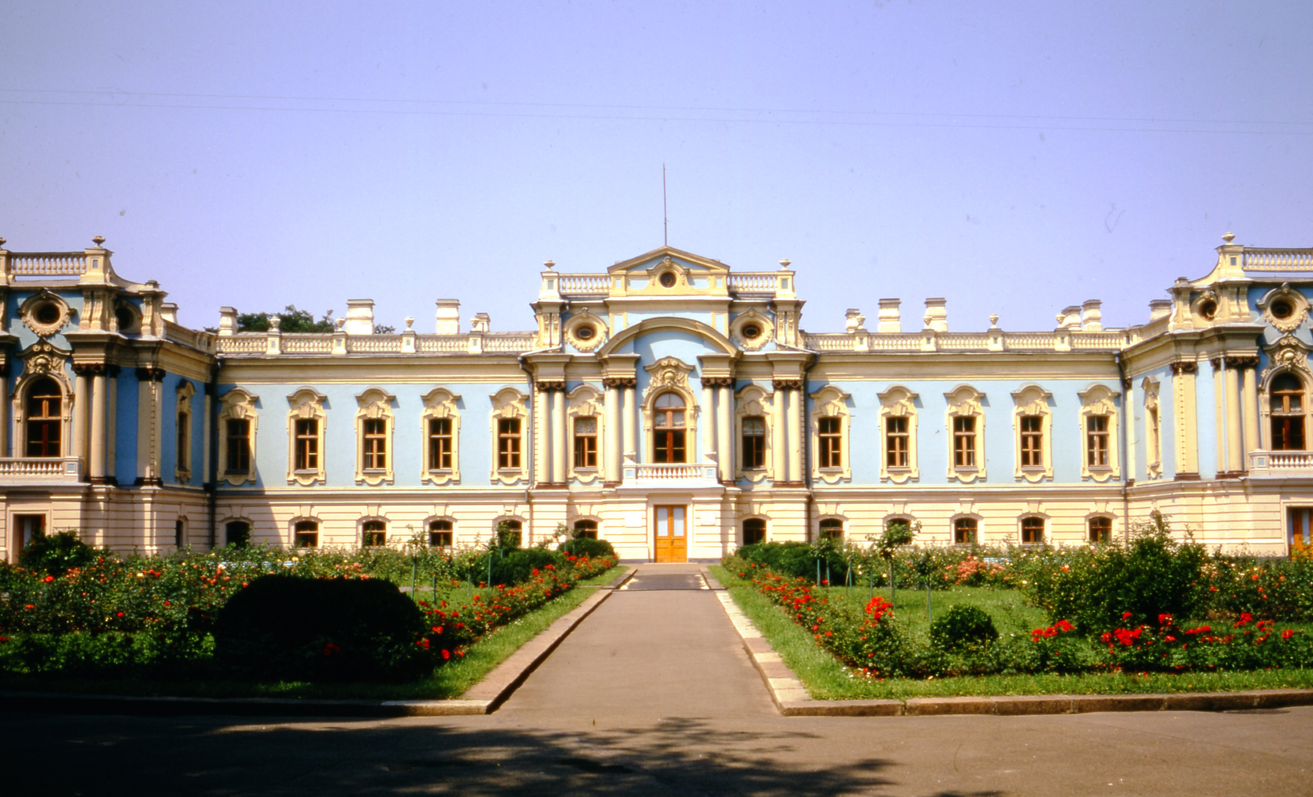 These images were taken by Thomas T. Hammond during his trip to the Soviet Union and Ukraine. This specific image features the Mariinsky Palace in Ukraine.